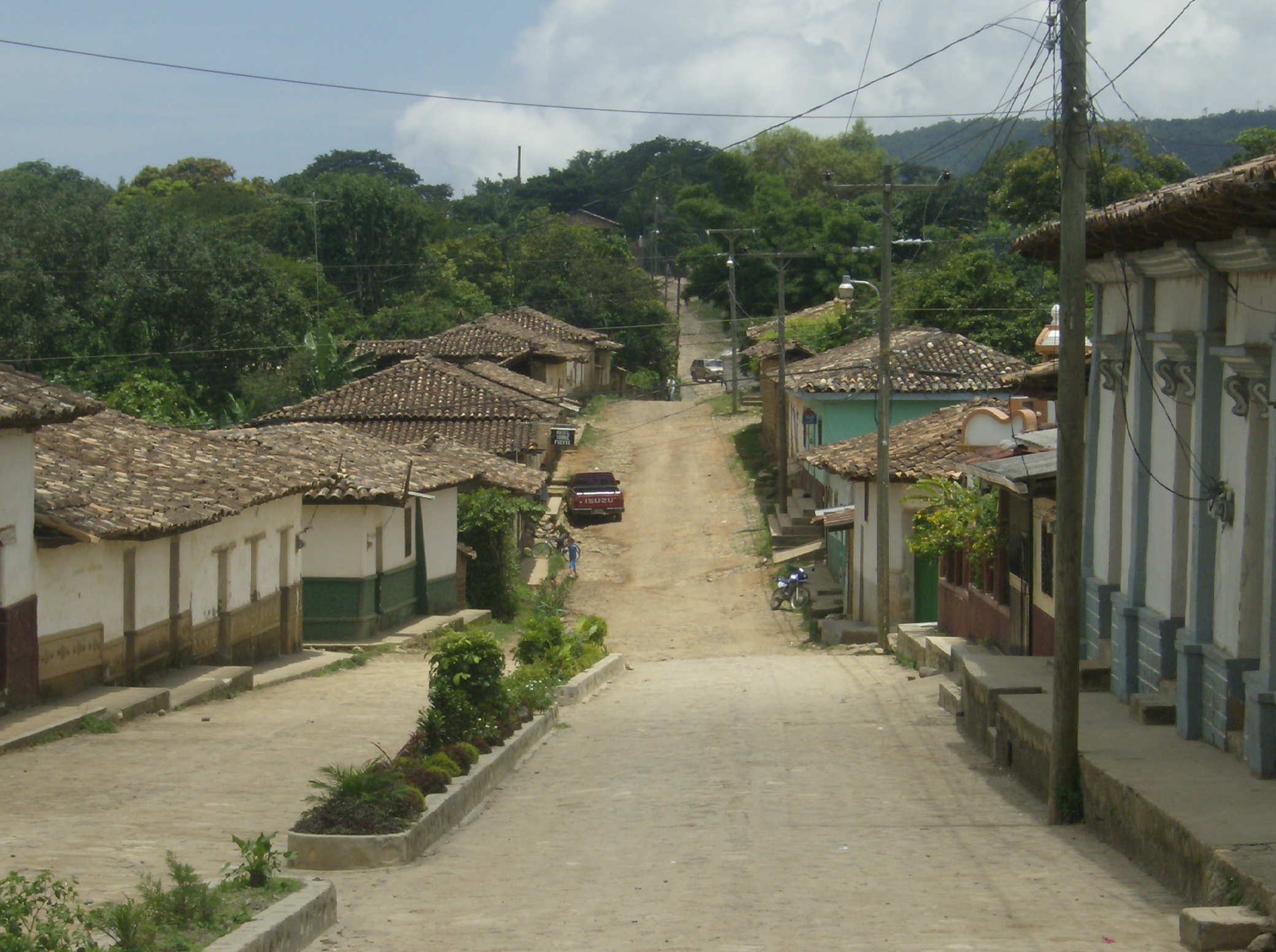 Erandique, municipality in the Honduran department of Lempira.